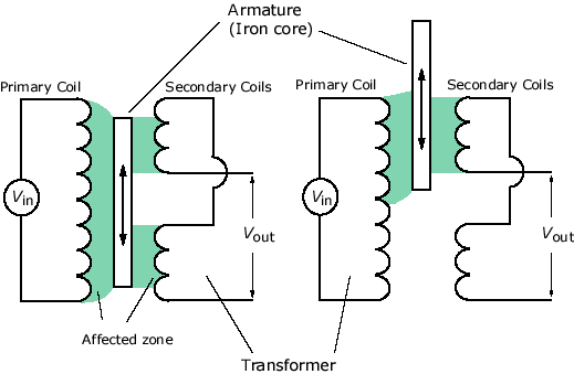 LVDT fuction